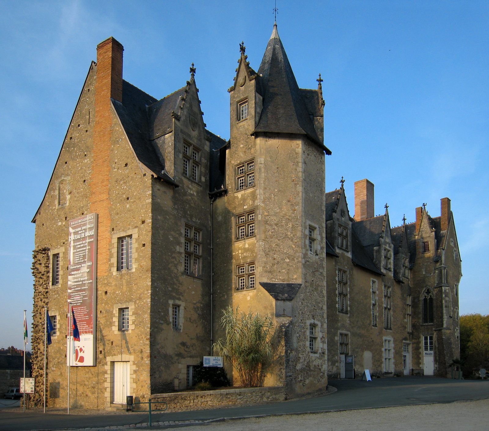 Castle of Baugé, home castle of the René, Duke of Anjou, also known as "King René", located in the village of Baugé in the county of Maine-et-Loire/France.